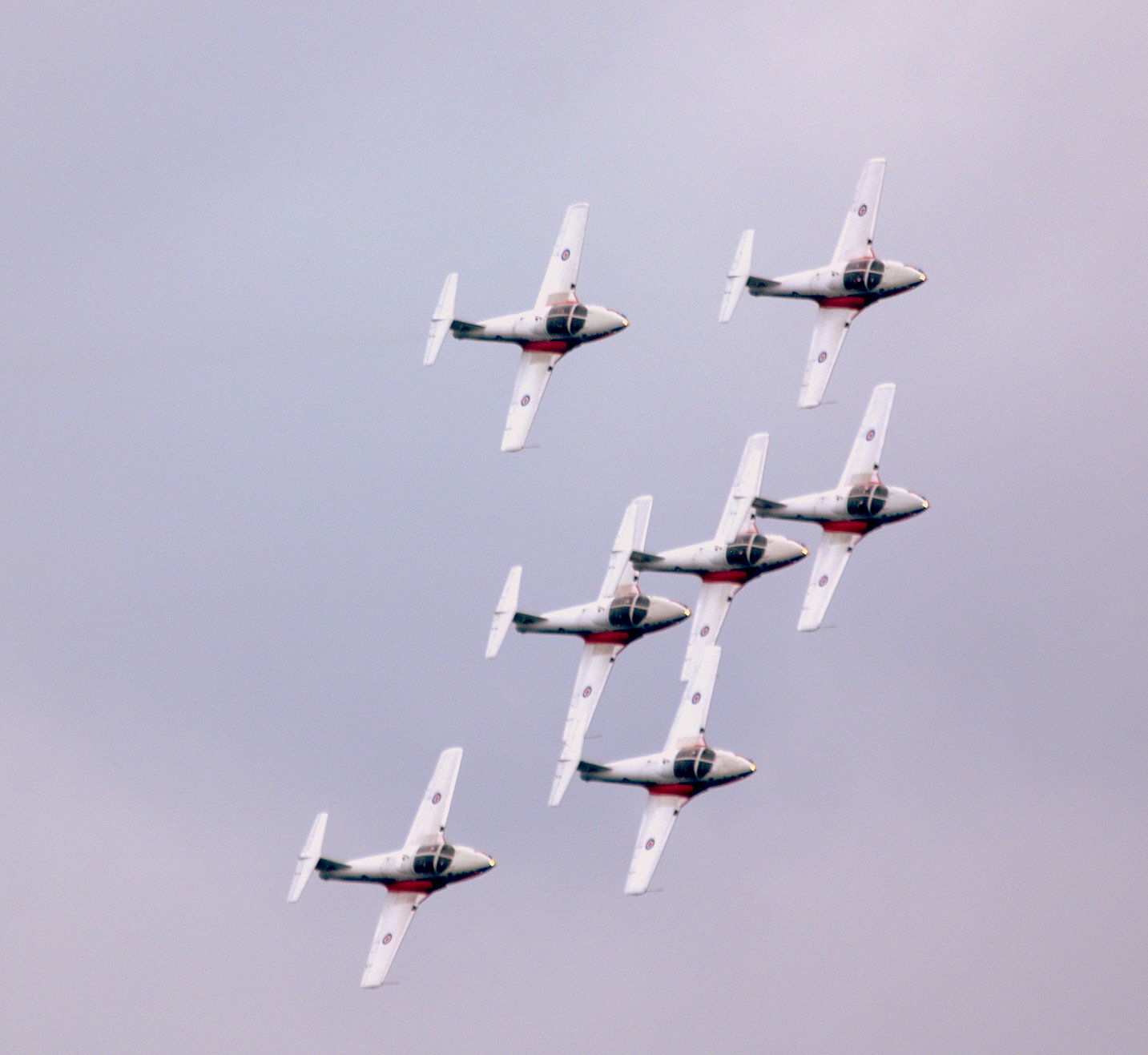 62nd annual Toronto Air Show at the CNE/Ontario Place on Lake Ontario.